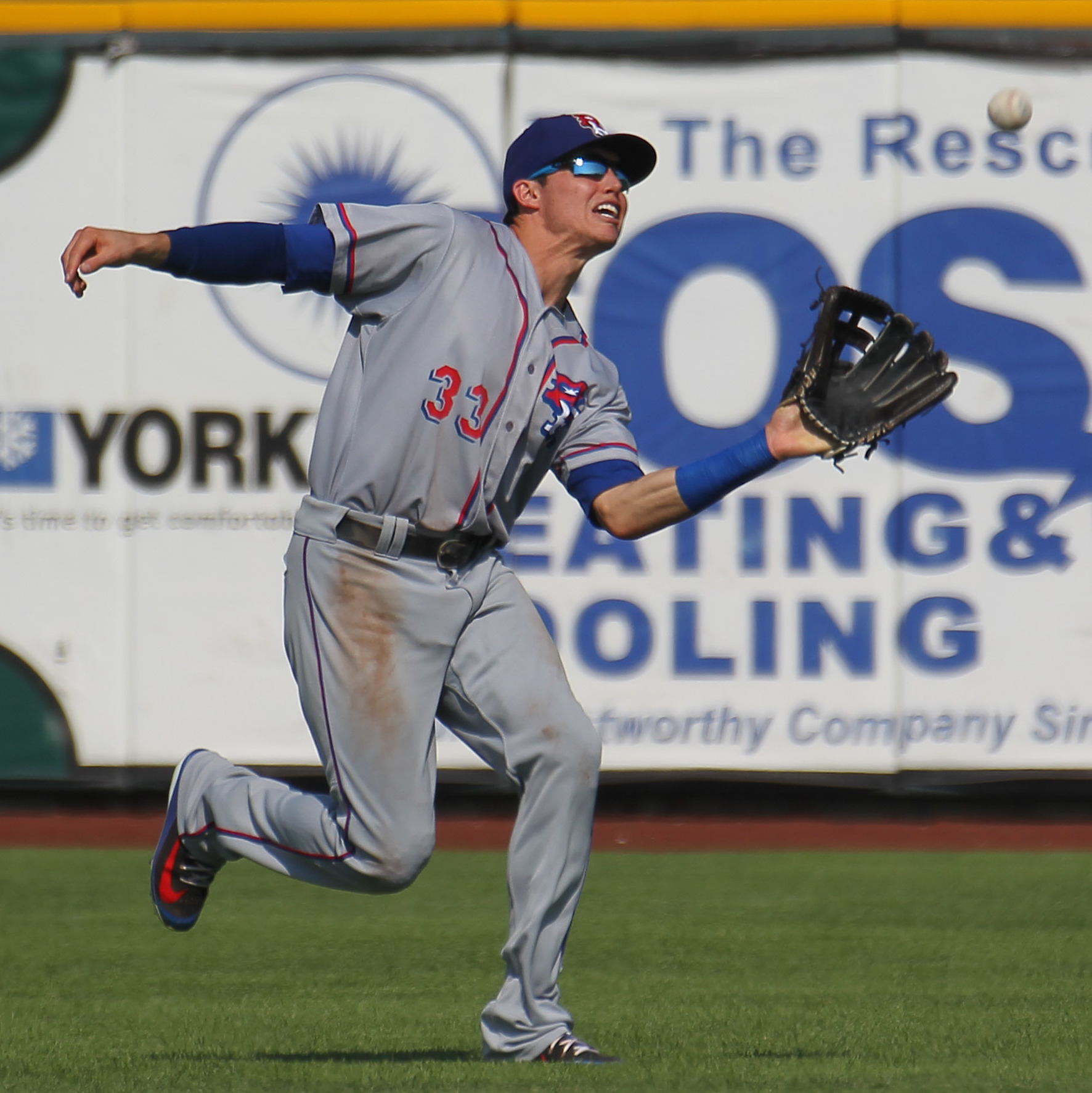 Drew Robinson catches a fly ball for the Round Rock Express to end a game against the Omaha Storm Chasers at Werner Park in Omaha in 2018.